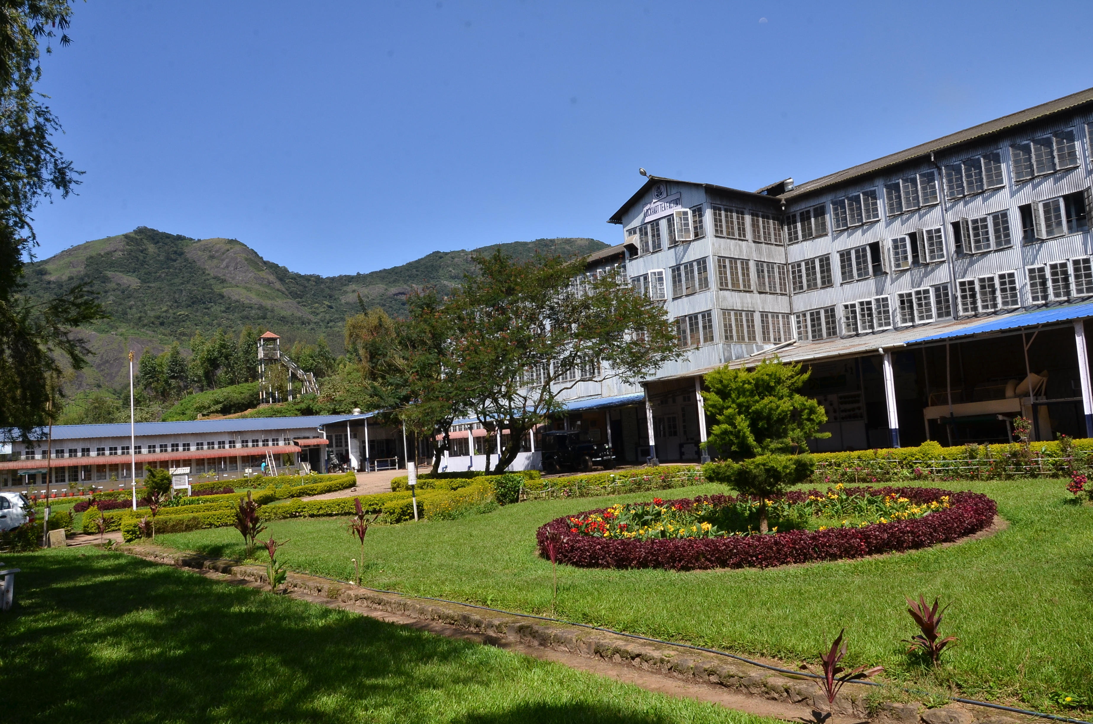 Lockhart Tea Factory in Munnar